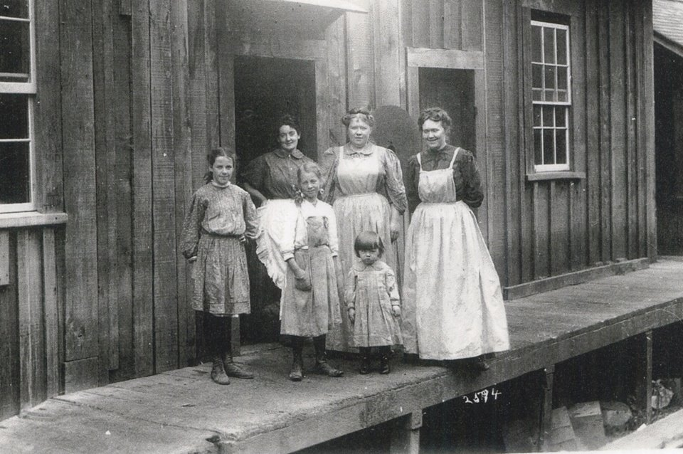 Deep in the misty redwoods of northern California hides the ghost town of Falk. Once a boisterous mill town of four-hundred lumber workers and their families, Falk now haunts the Headwaters Forest Reserve. The 7,400 acre reserve is located 6 miles southeast of Eureka, CA. It was set aside to protect and preserve the ecological and wildlife values in the area, particularly the stands of old-growth redwood that provide habitat for the threatened marbled murrelet, and the stream systems that provide habitat for threatened coho salmon. Only remnants remain from the historic mill town of Falk, but park rangers lead interpretive hikes and story reenactments. A recent survey of the area recorded the presence of outlying lumber camps, and patterns of vegetation resulting from residential use and historic logging practices. Learn more about the Headwaters Forest Reserve and the ghost town of Falk. Check out the video “Falk: A Town Disappeared” The film was produced by Ethan Cardoza, a student in the Humboldt State University Film Program. It provides an excellent overview of the town of Falk and Headwaters. More about Headwaters Forest Reserve